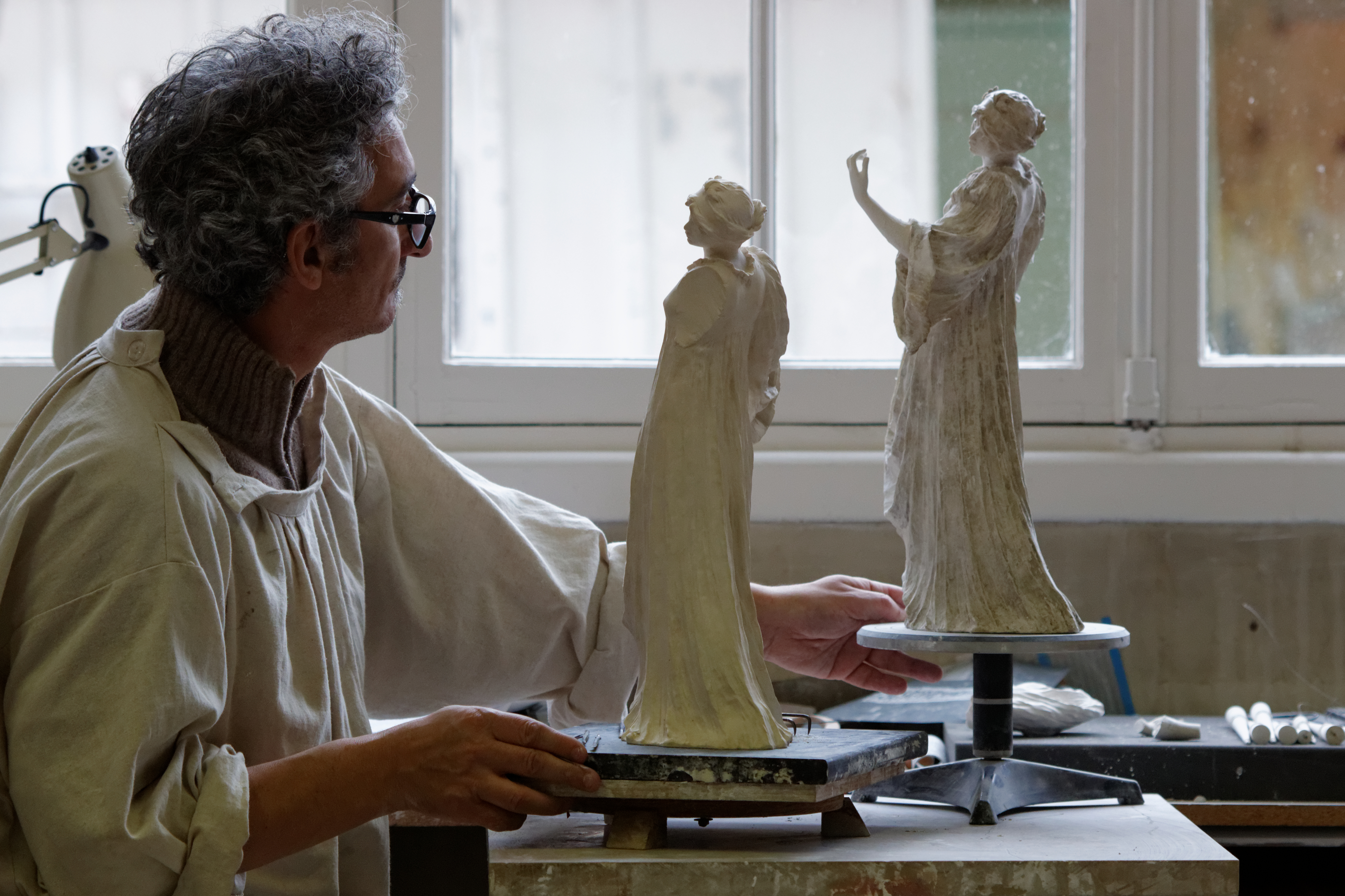 Figure sculpting workshop of the manufacture nationale de Sèvres.